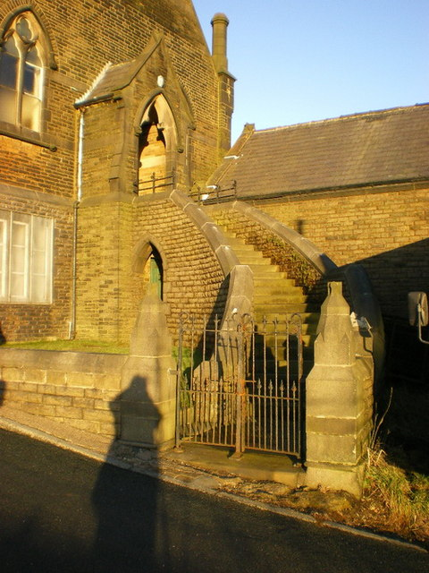 "Stairway to Heaven". Access steps to Old Town Methodist Church, Chiserley, Calderdale, West Yorkshire, England.